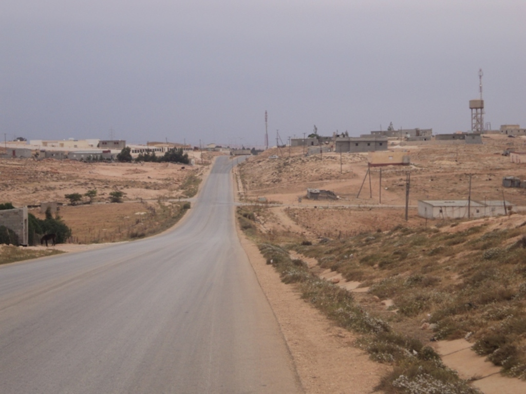 Libyan village of Marawah.